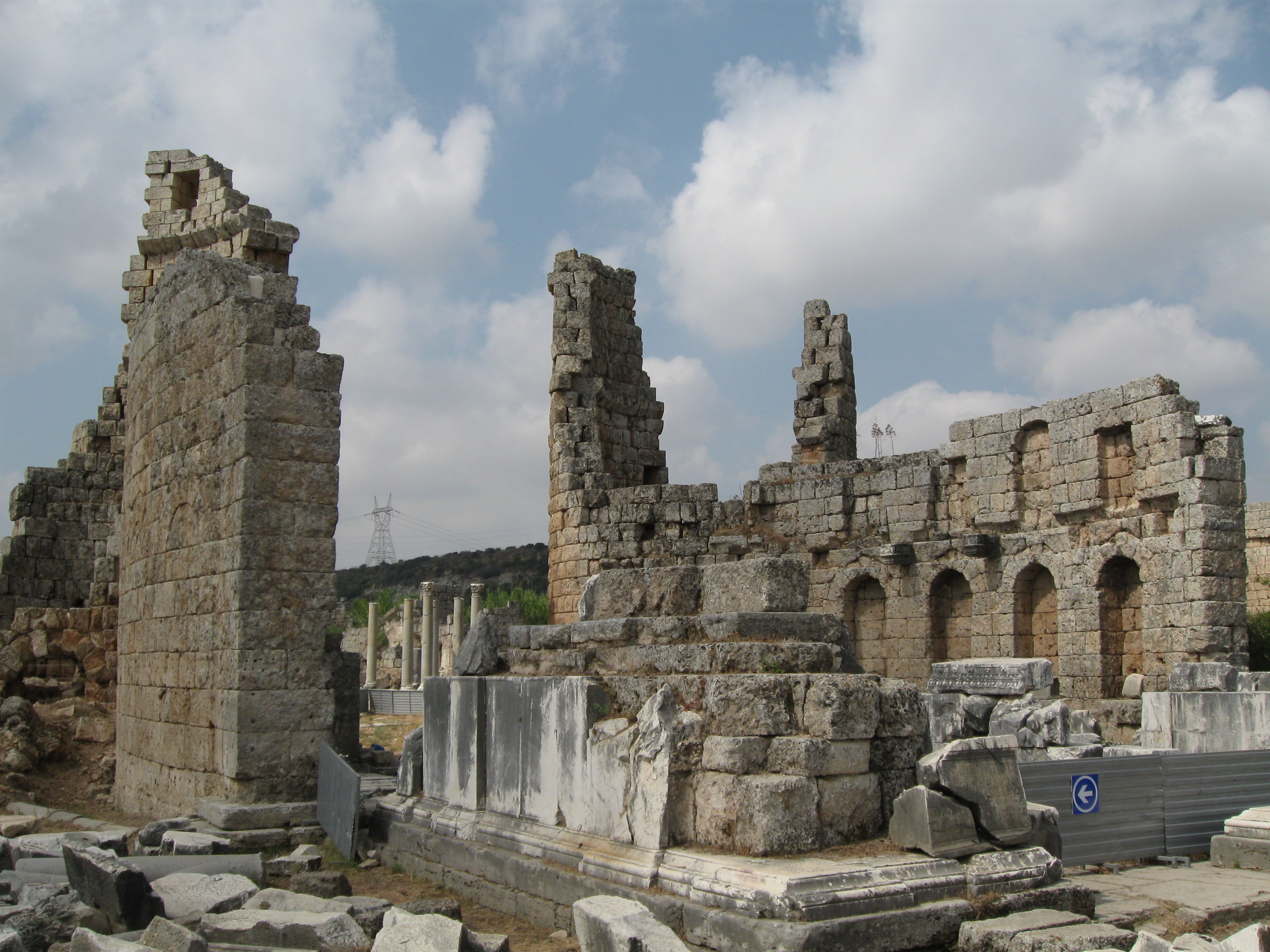 Hellenistic city gate.